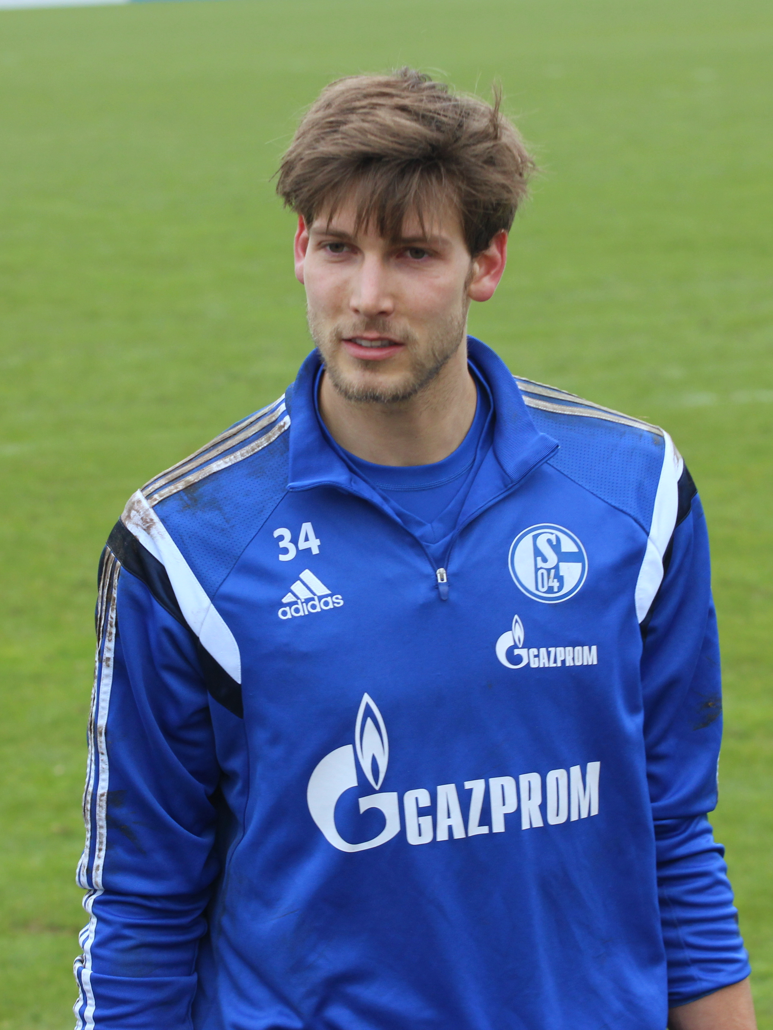 Fabian Giefer at a Schalke 04 training on 23 January 2015.